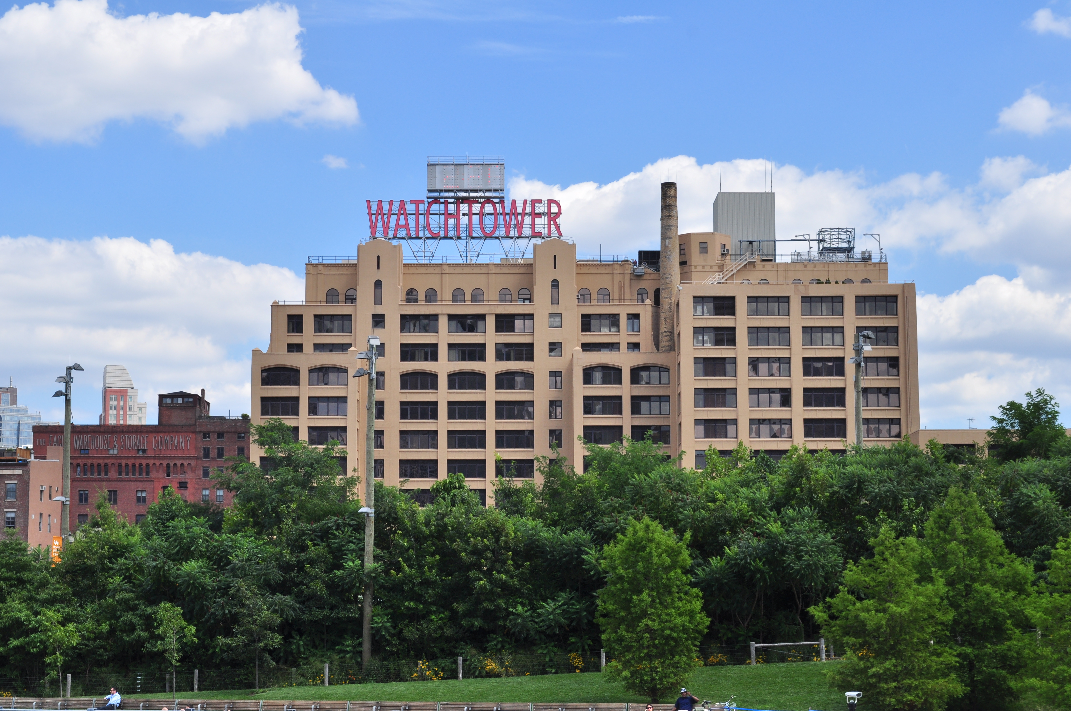 Headquarters of the Watchtower Bible and Tract Society, Brooklyn, New York, seen from New York Water Taxi on the East River.